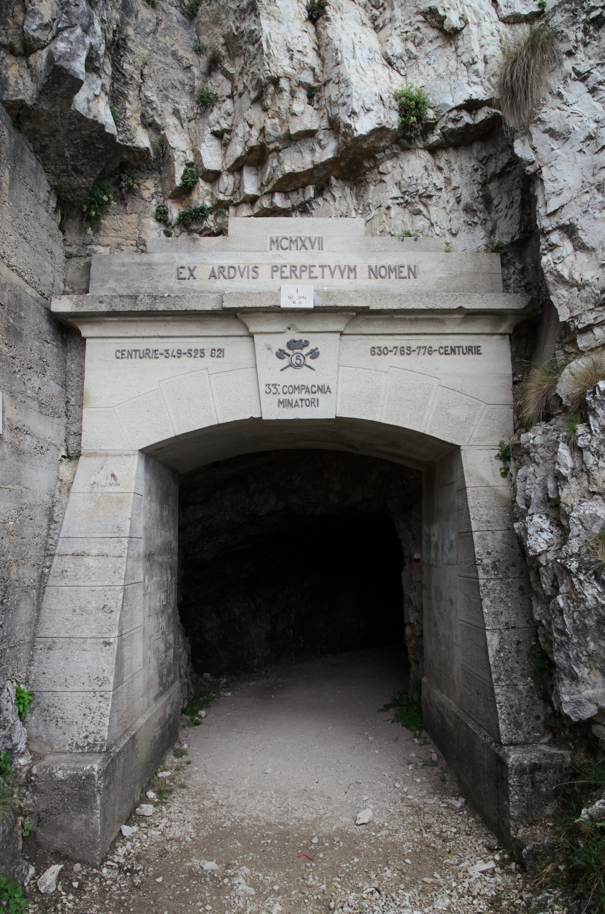 Starting point of the "52 gallerie" trail. Pasubio Italy